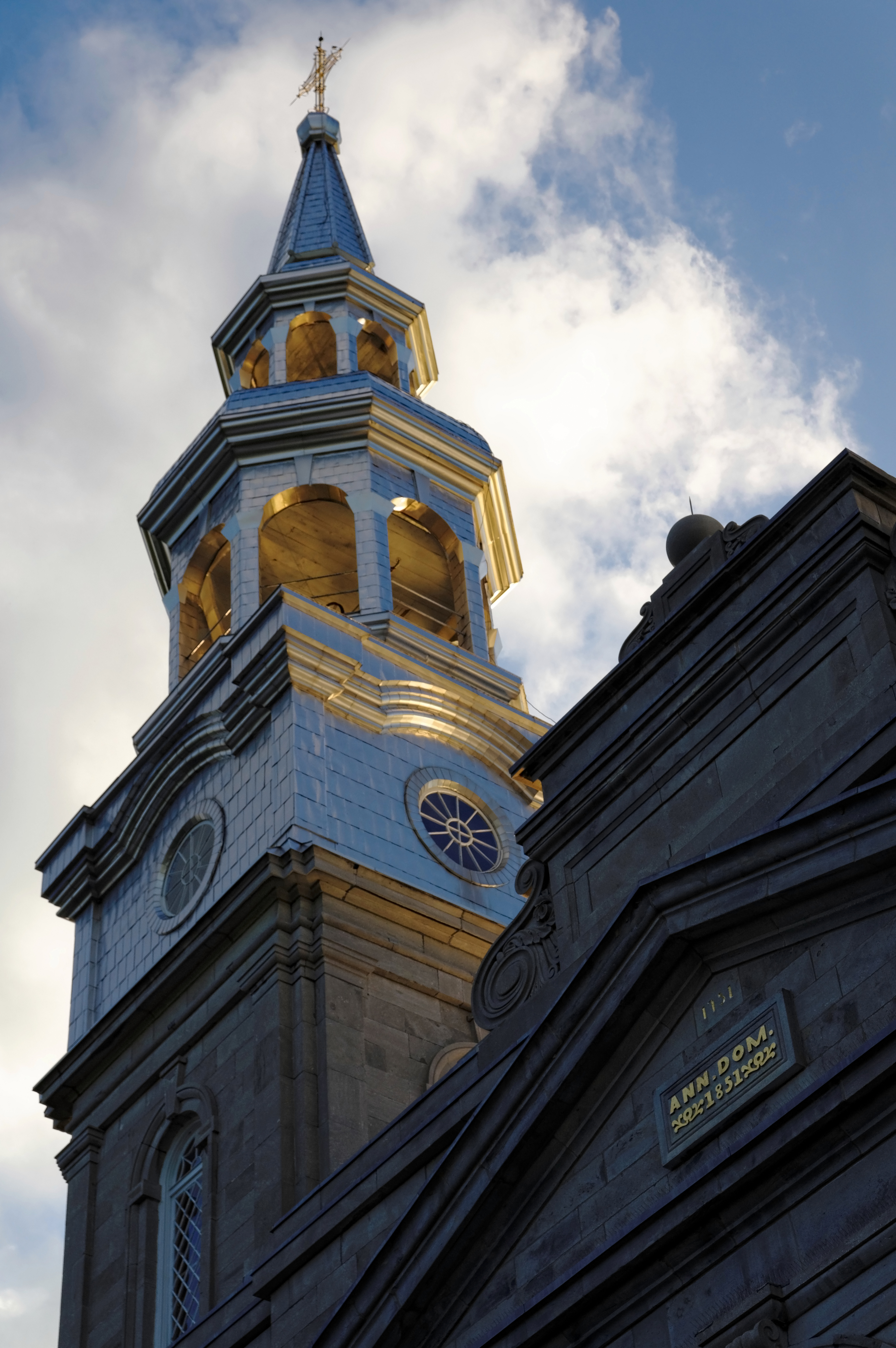 The Sault-au-Récollet Church Detailed View